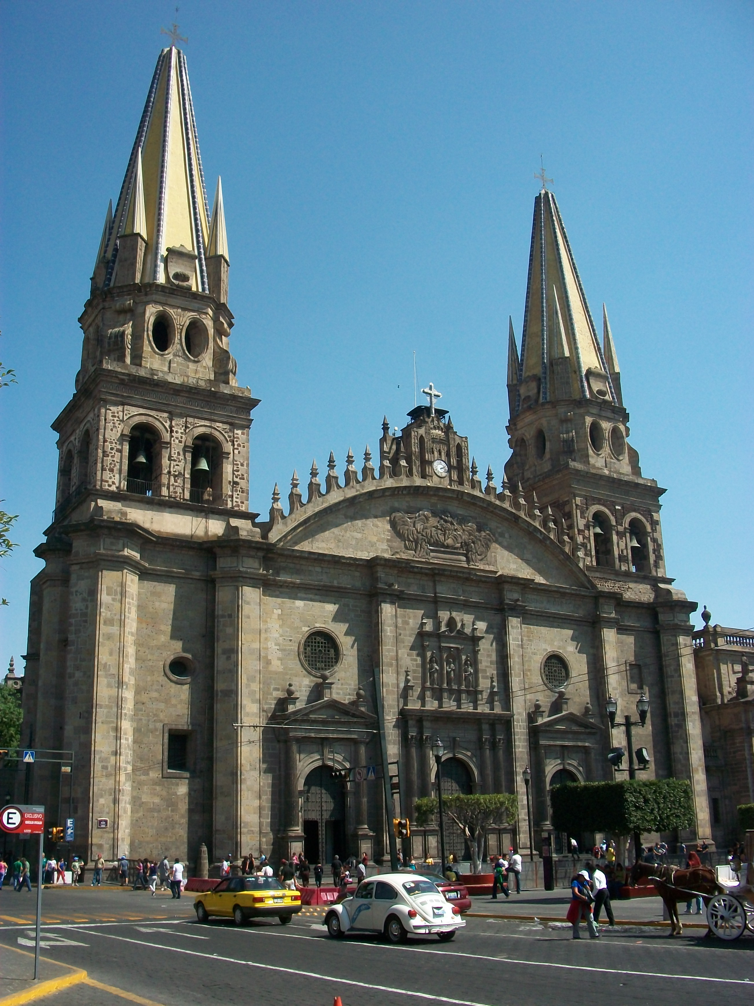 Lateral facade view of the Cathedral of Guadalajara, in Jalisco state, Mexico. Built between 1561 and 1618 in the Spanish Renaissance style.